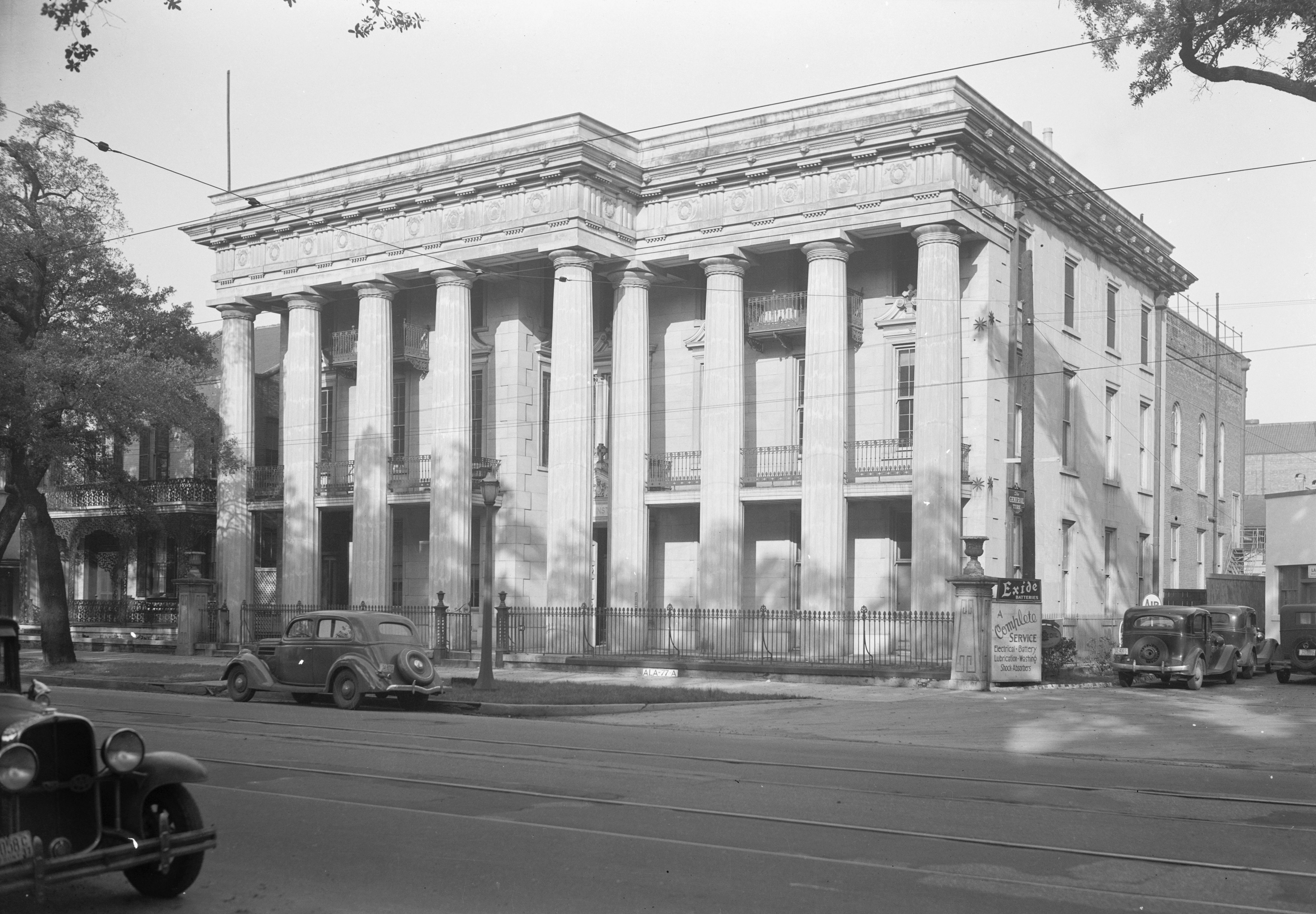 McGill Institute, 252 Government Street, Mobile, Mobile County, Alabama. South elevation (front), east side. Built by the Chandlers in 1850 as a family home, it was sold to the McGill brothers and opened as the McGill Institute, a Catholic school, in 1897.